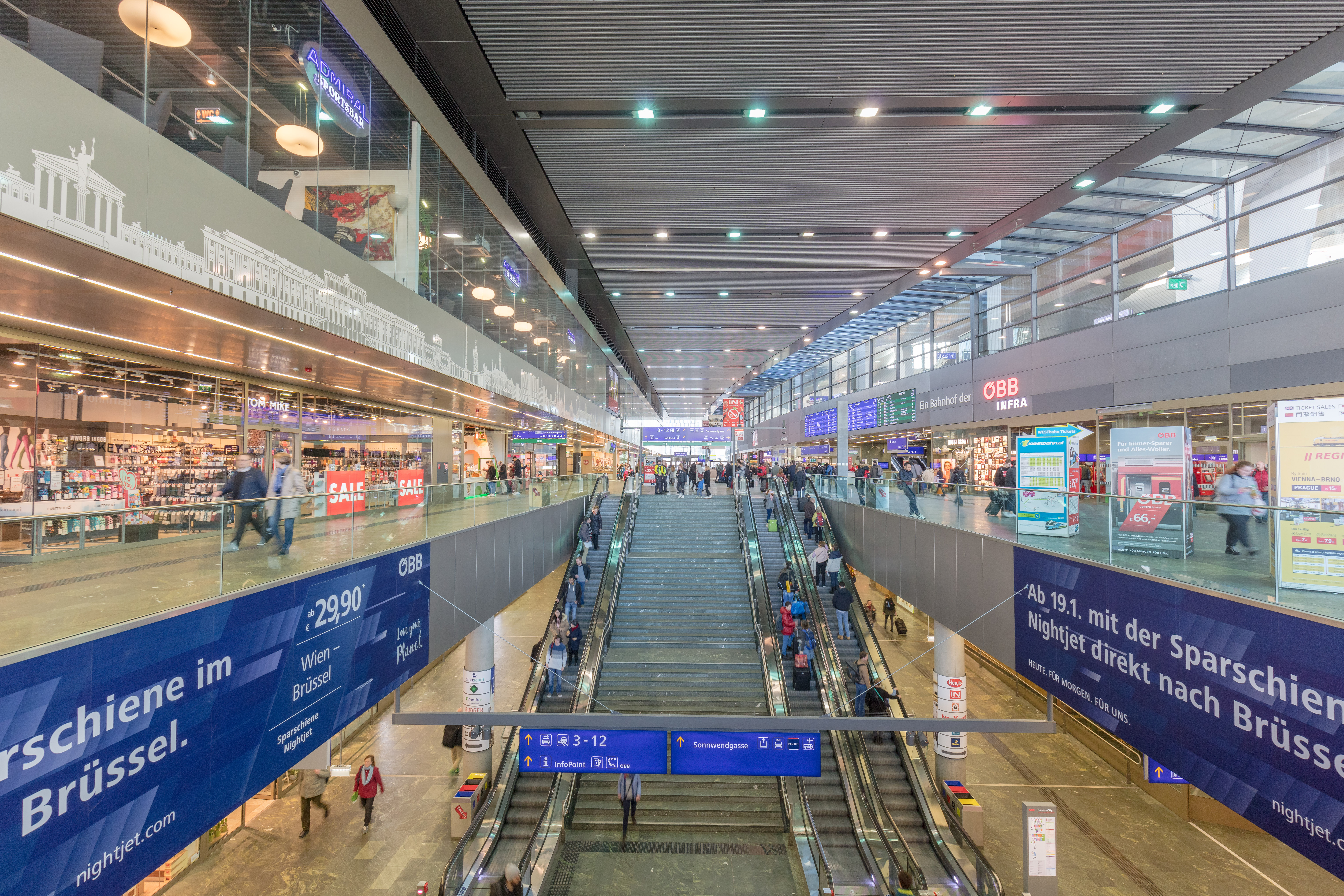 Central railway station, Vienna, Austria